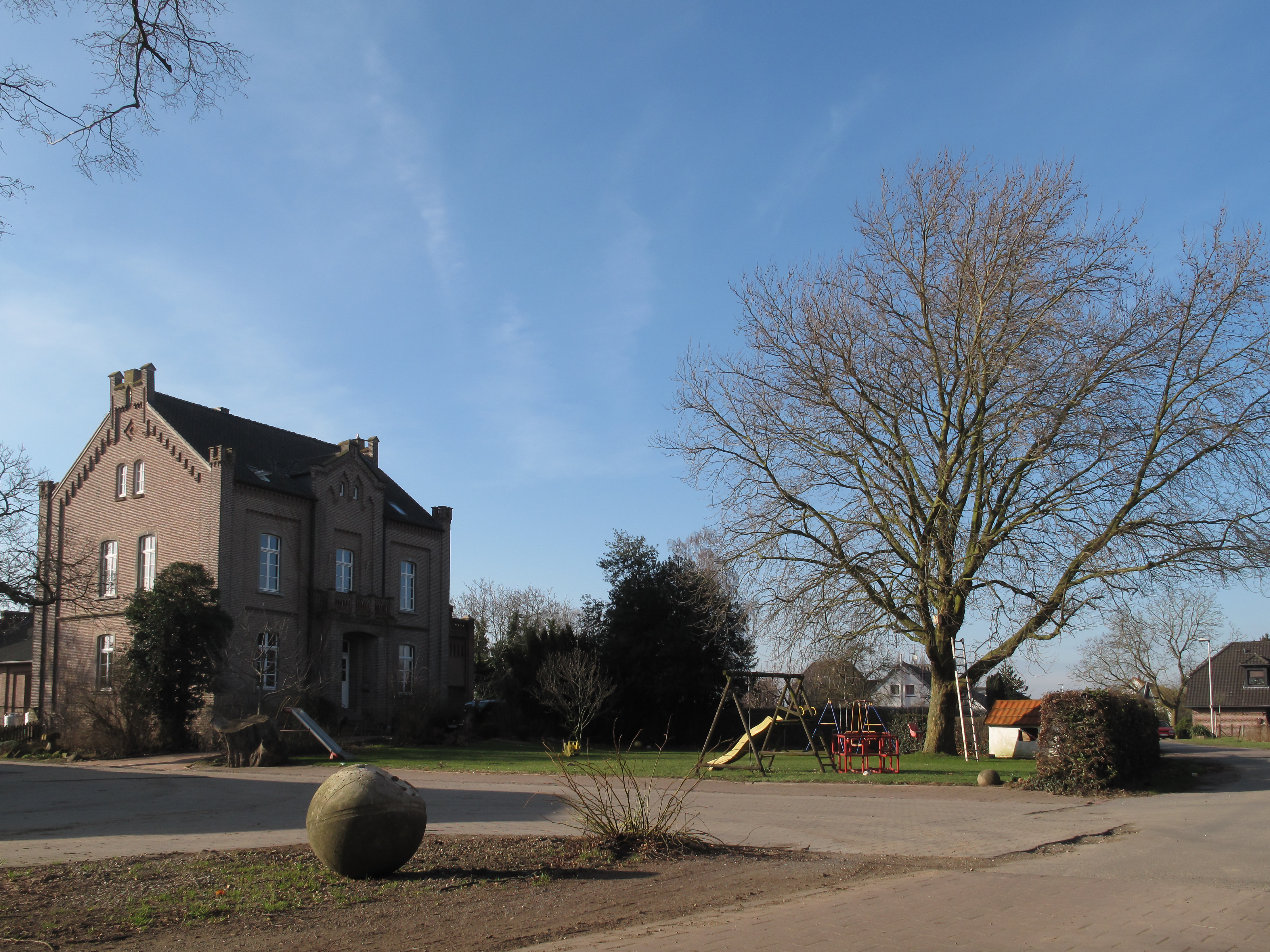 Brienen, view to a street